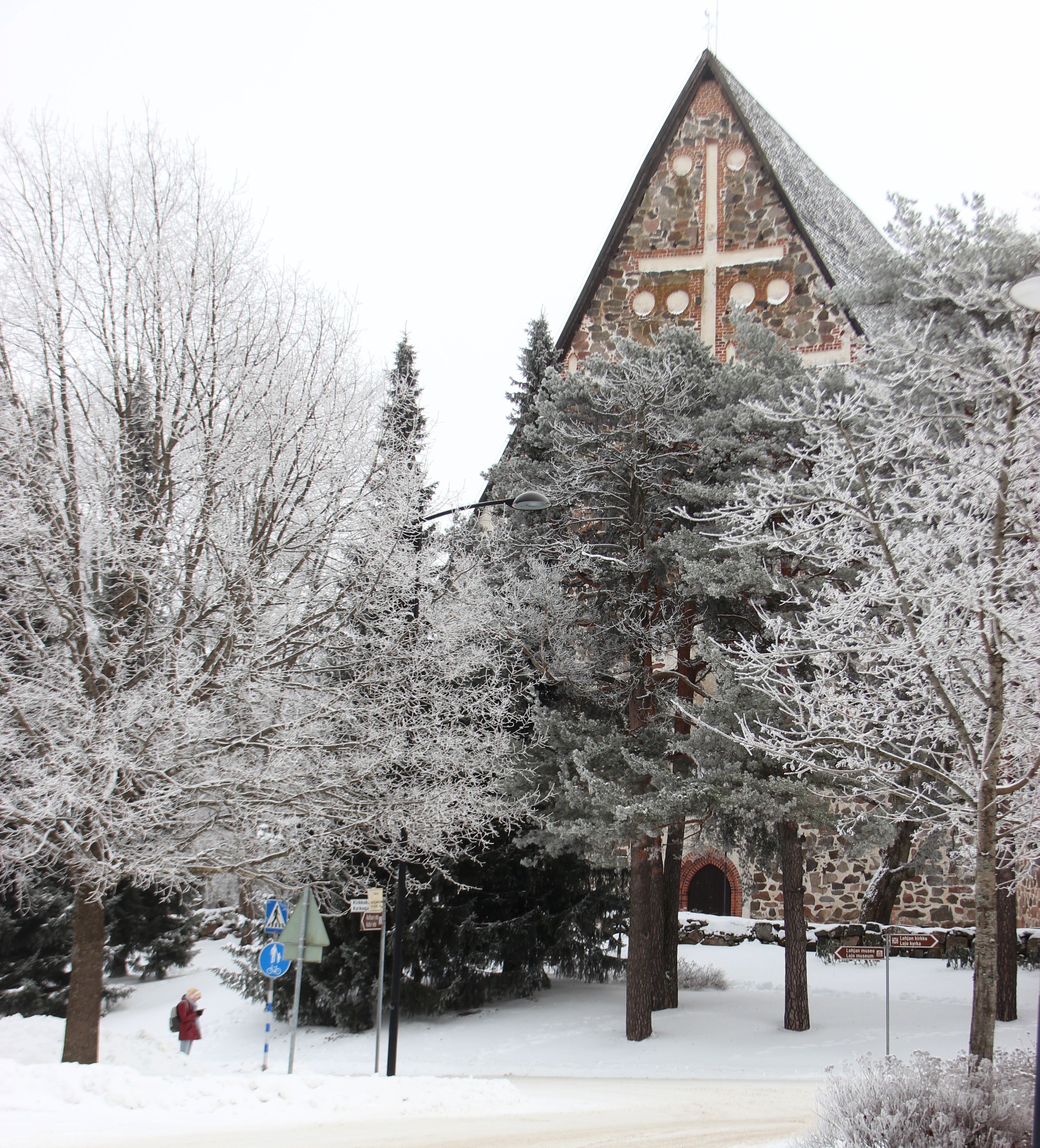 Lohja Church in February 2017, in Lohja, Finland.